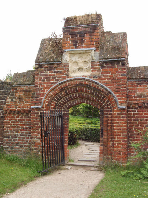 Arch in Tudor brick wall, Fulham Palace This leads to the herb garden - its box hedges can be seen through the arch.